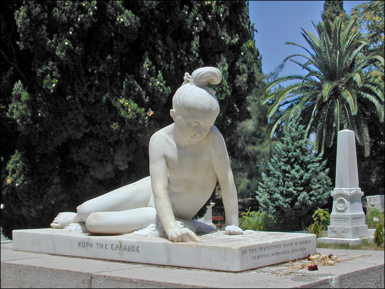 "Tomb of Markos Botsaris". A monument created by the French sculptor David d'Angers to the Greek liberator Markos Botsaris consisting of a young female figure called Reviving Greece (replica by Georgios Bonanos of an original now in the National Historical Museum of Athens). Messolonghi, Greece